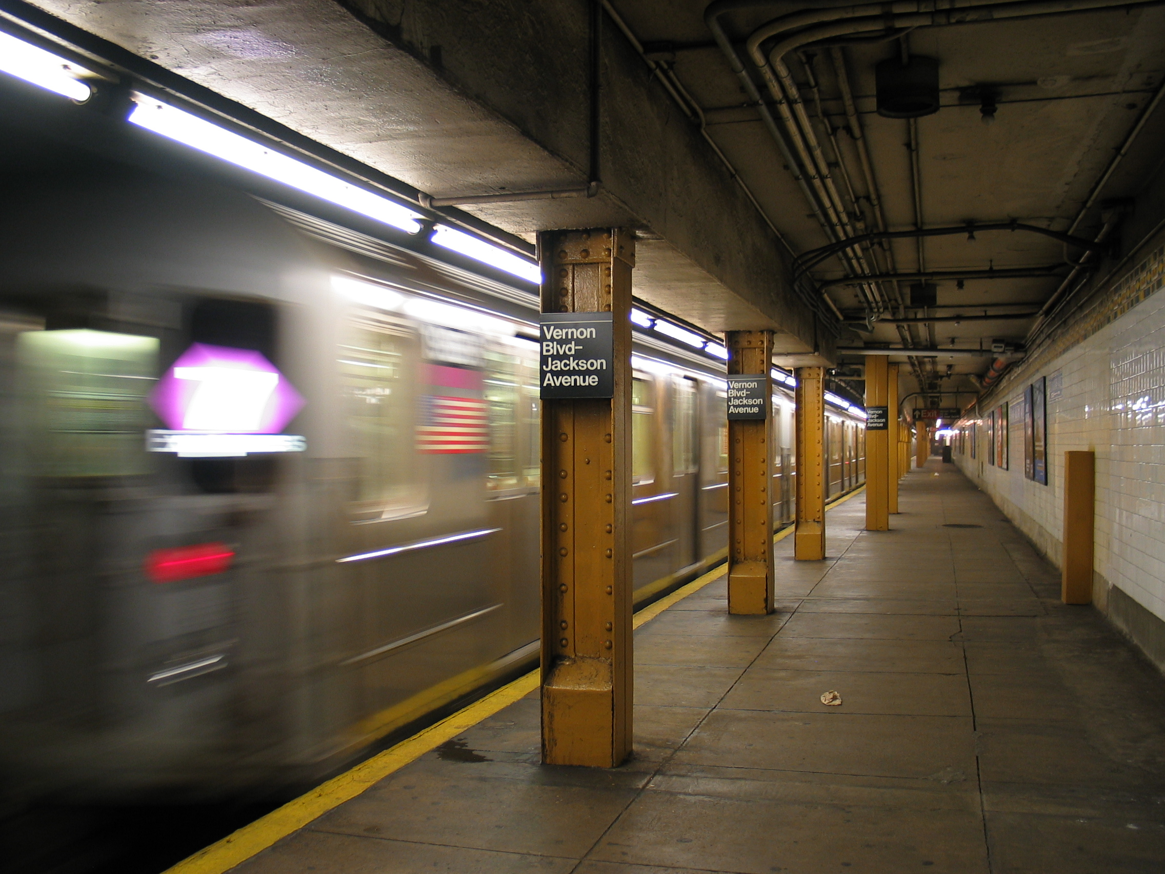 7 train entering Vernon Boulevard / Jackson Avenue station.